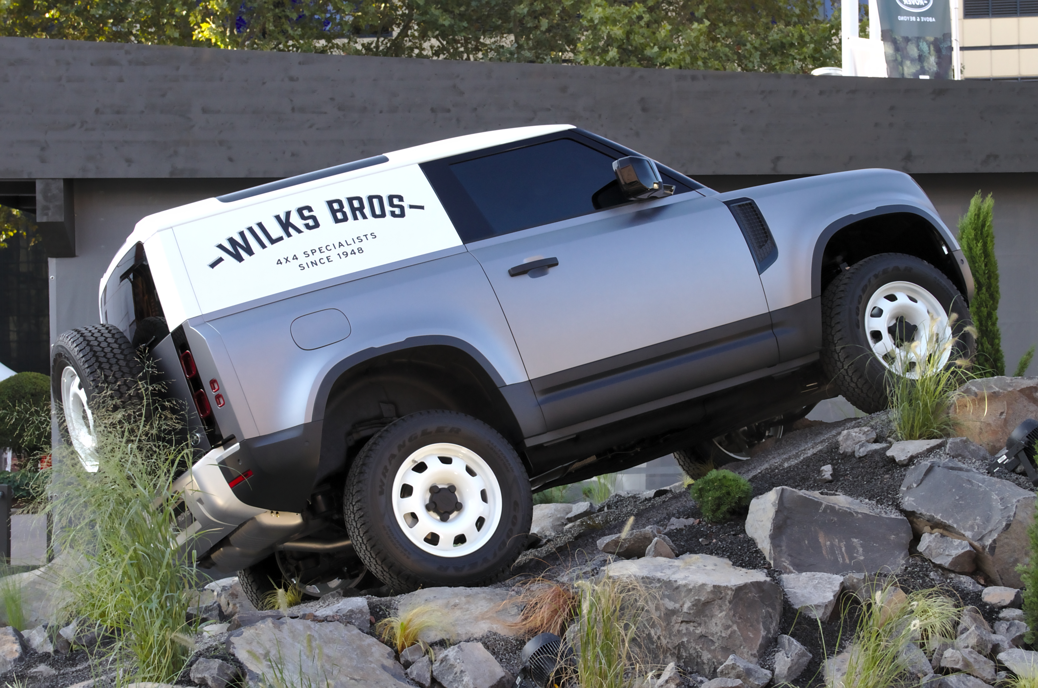 Land_Rover_Defender_(L663) at IAA 2019